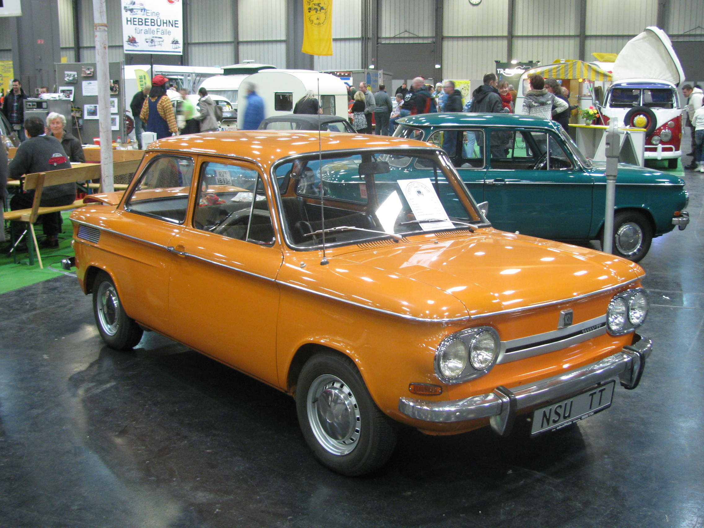 NSU 1200 TT from 1969. Powered by a four-cylinder, 65-hp engine of which displacement is 1 200 cm³. Top speed 150 km/h. MotoTechnica Augsburg 2012.